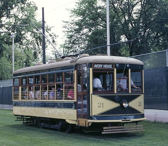 Fort Collins, Colorado streetcar 21, a 1919 Birney-type streetcar, leaving the City Park terminus of the heritage trolley line that opened in December 1984. Car 21 was built by the American Car Company, a subsidiary (after 1902) of the J. G. Brill Company.